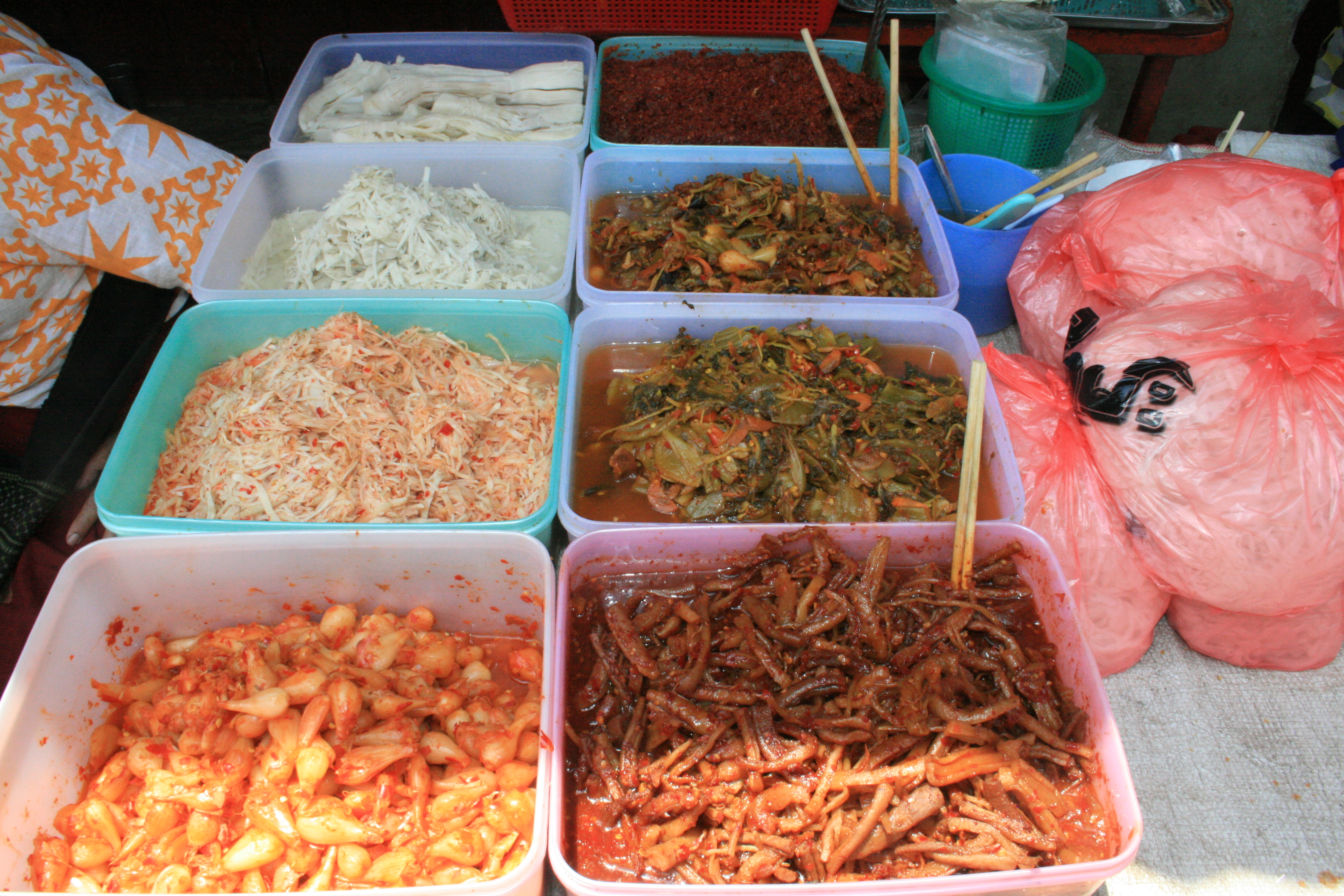 Mohninjin Seller at Taunggyi